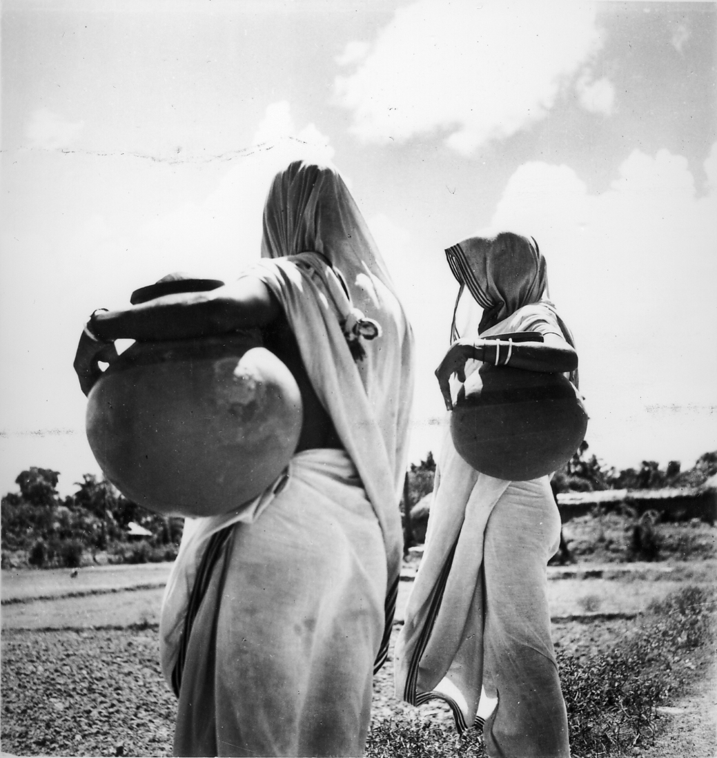 Description: "In a Bengali village. Bengali women fetching water from the well in earthenware pots." Photograph by Cecil Beaton for the Ministry of Information. Date: 1944 Our Catalogue Reference: INF 14/435/7 This image is from the collections of The National Archives. Feel free to share it within the spirit of the Commons. For high quality reproductions of any item from our collection please contact our image library.